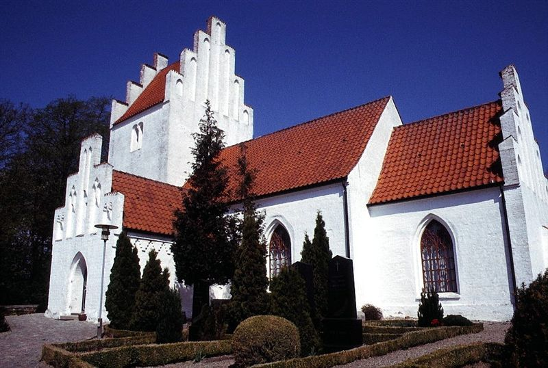 Aversi Kirke (church) in Næstved Kommune, mentioned first time in 1370